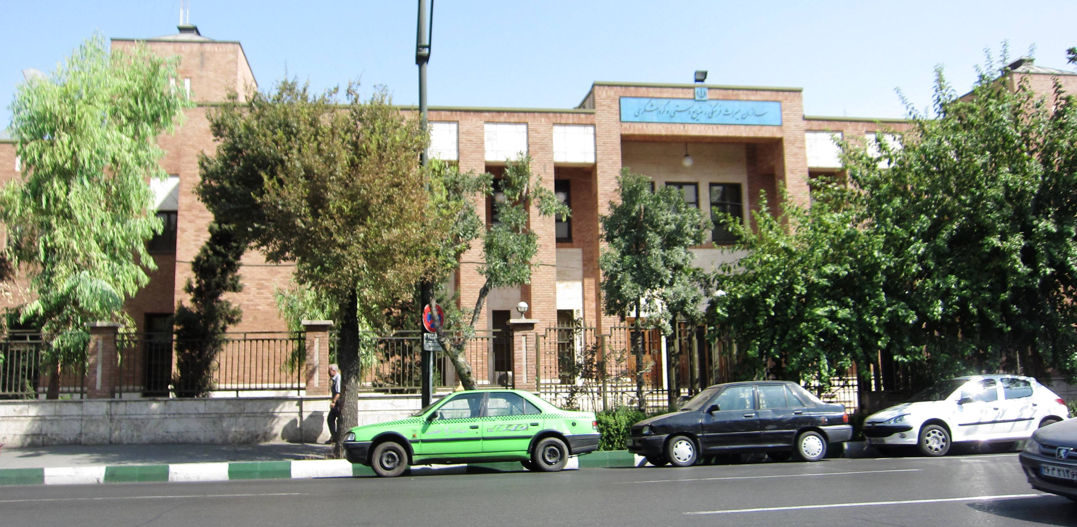 The building of Cultural Heritage, Handcrafts and Tourism Organization of Iran in Tehran